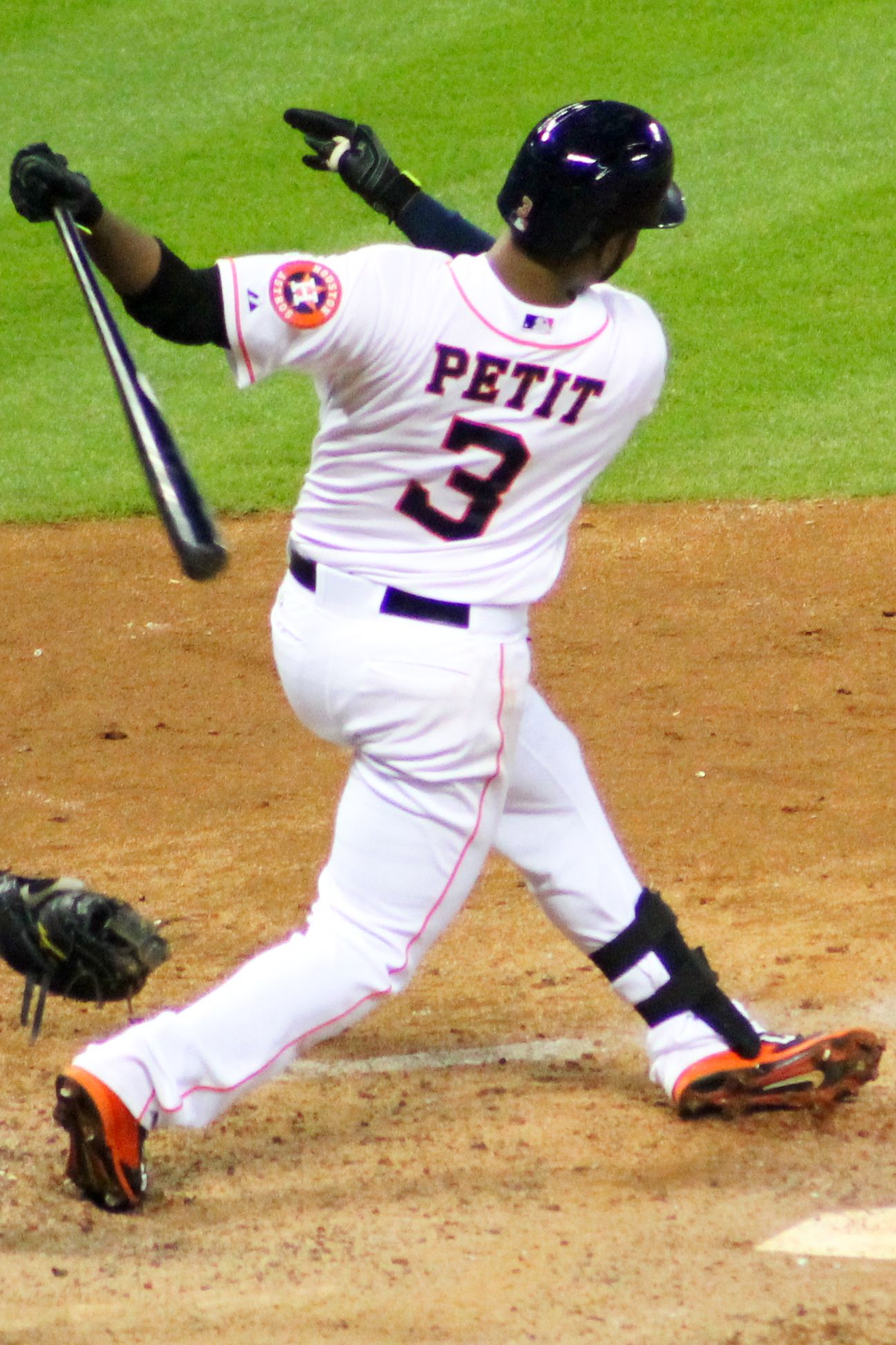 Baseball player Gregorio Petit swings at a pitch during an August 2014 game in Houston.